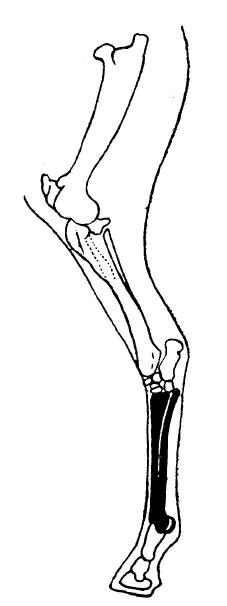 Unguligrade mammal (Horse)